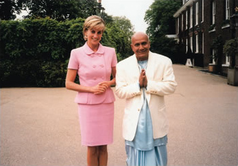 Princess Diana meeting with Sri Chinmoy, Kensington Palace, May 21st 1997.